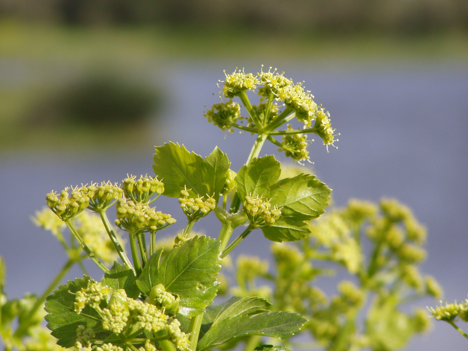 Alexanders